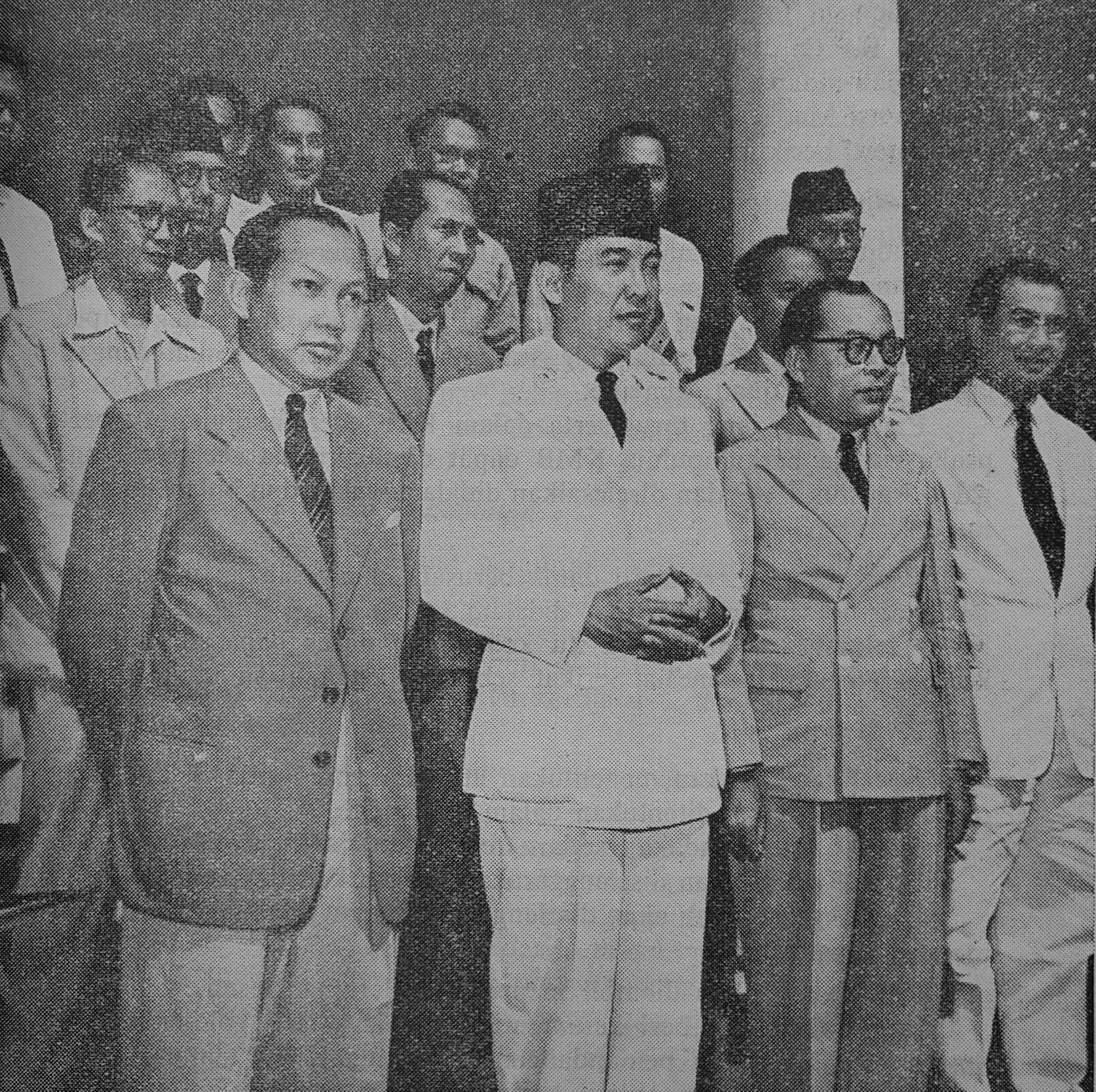 The first cabinet of the United States of Indonesia